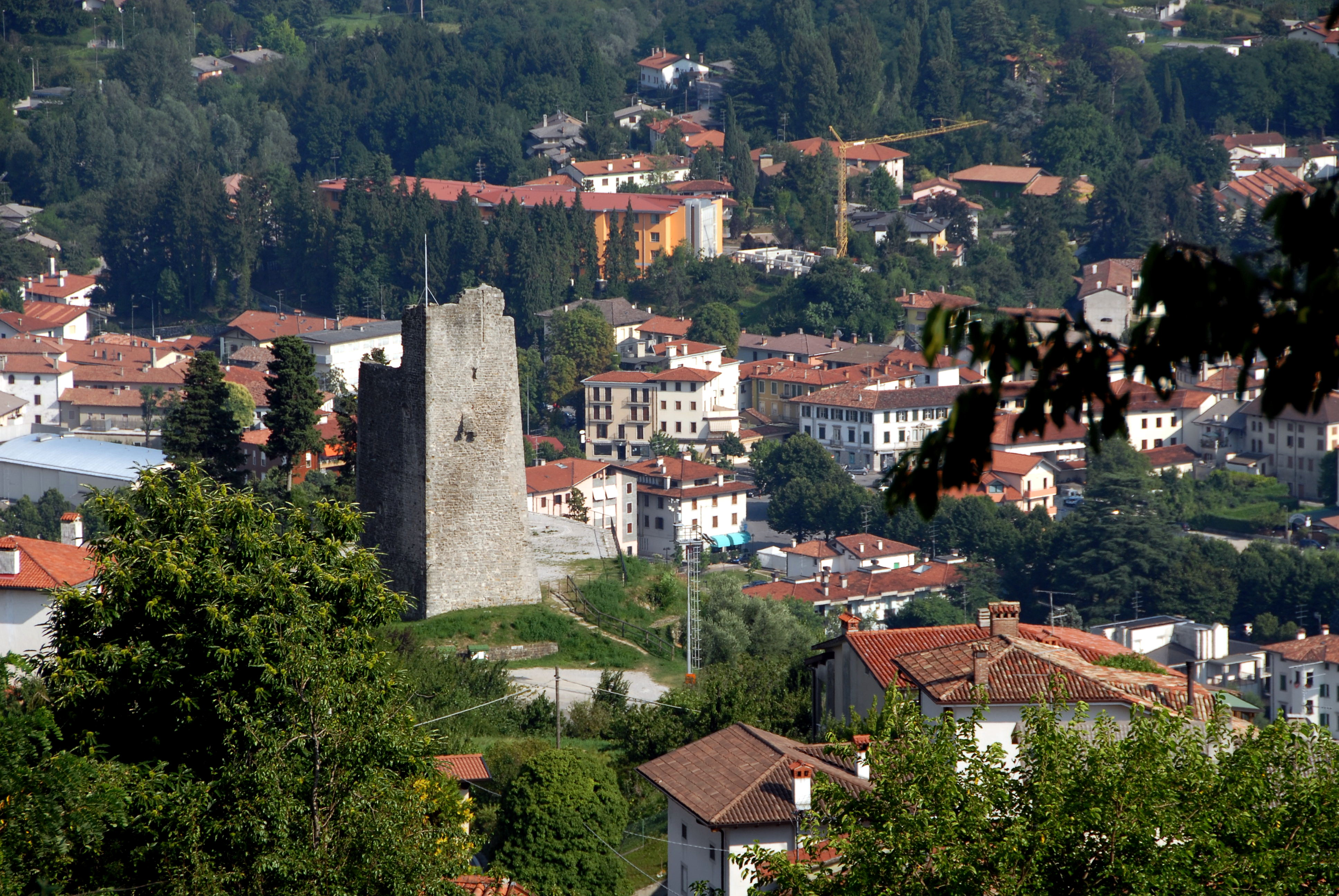 Keep of the lower castle Frangipane (14th to 16th century) in Tarcento, province of Udine, region Friuli-Venezia Giulia, Italy